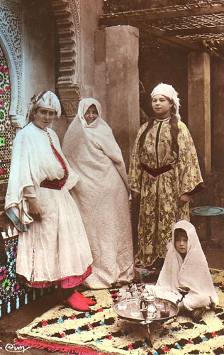 Jewish women and child in Meknes, Morocco.